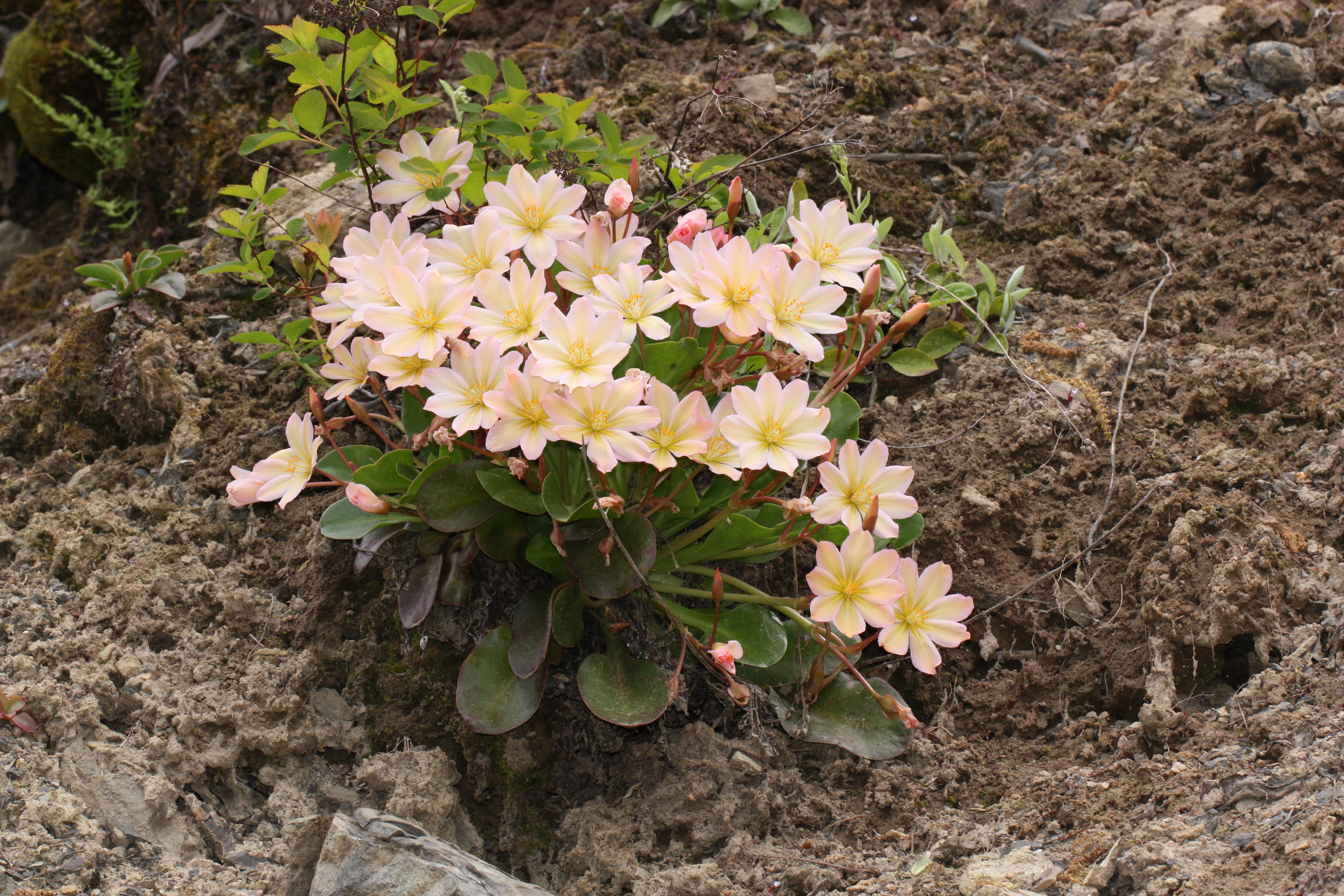 Tweedy's Lewisia Viewpoint location: Tronsen Ridge Trail #1204, Tronsen Ridge Viewpoint elevation: 1134 meter (3721 ft) Location source: Garmin GPSmap 60CSx Location Datum: WGS84